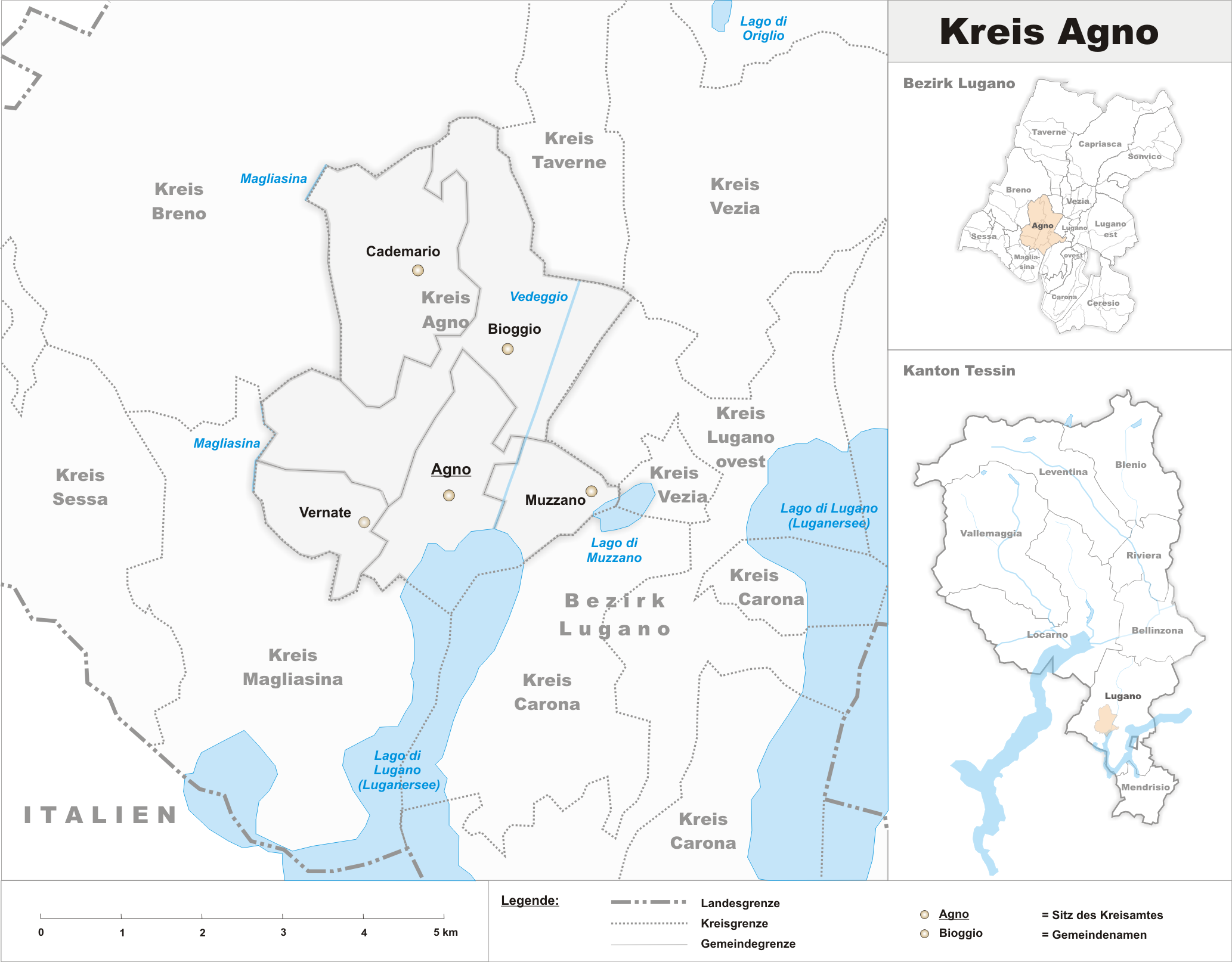 Municipalities in the circle of Agno